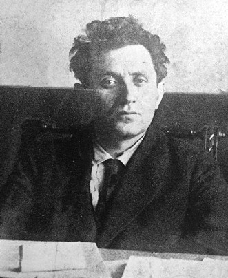 Bolshevik revolutionary Grigory Zinoviev (1883-1936)